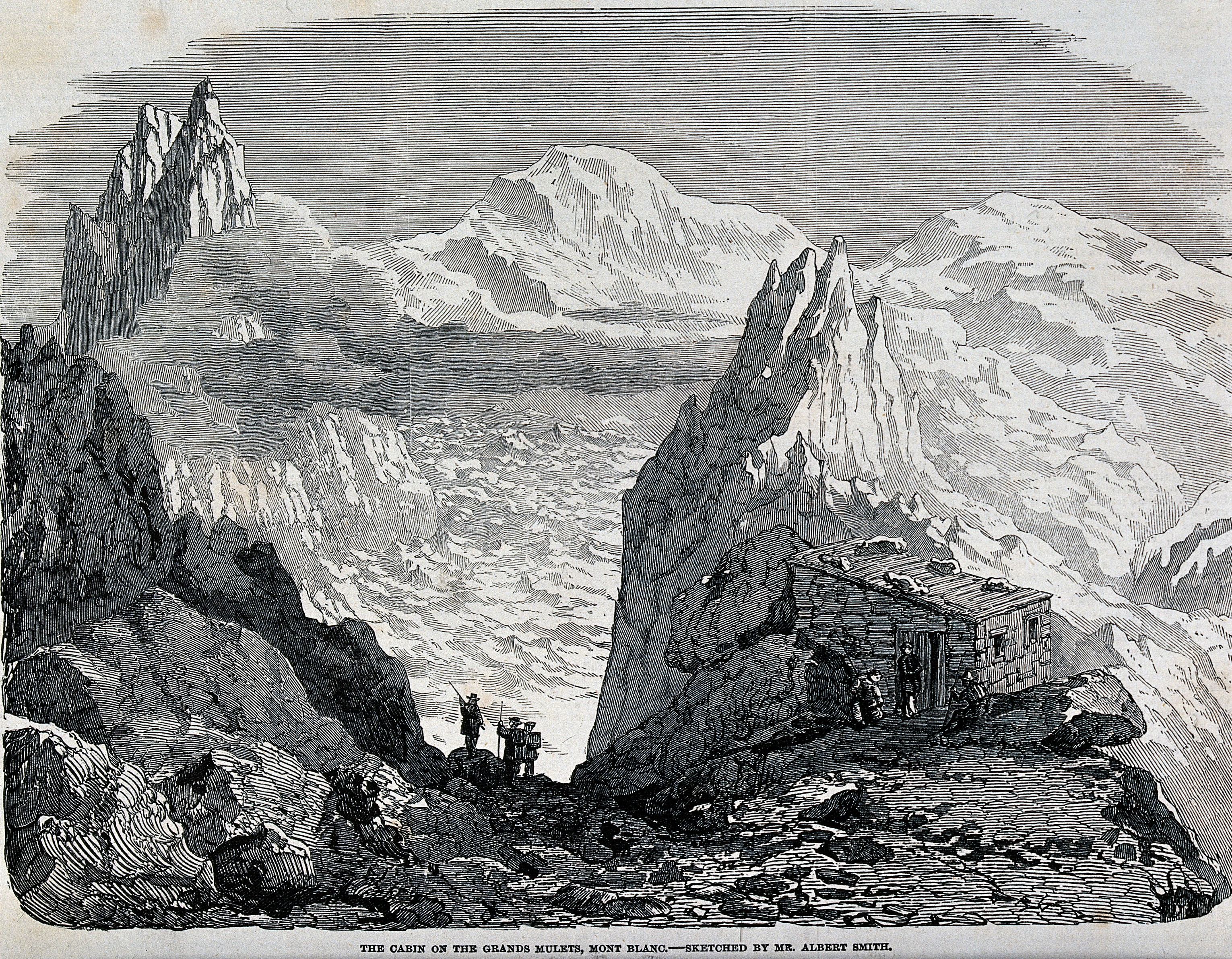 Mont Blanc: travellers outside the cabin on the Grands Mulets. Wood engraving, 1853, after Albert Smith. Iconographic Collections Keywords: Albert Richard Smith